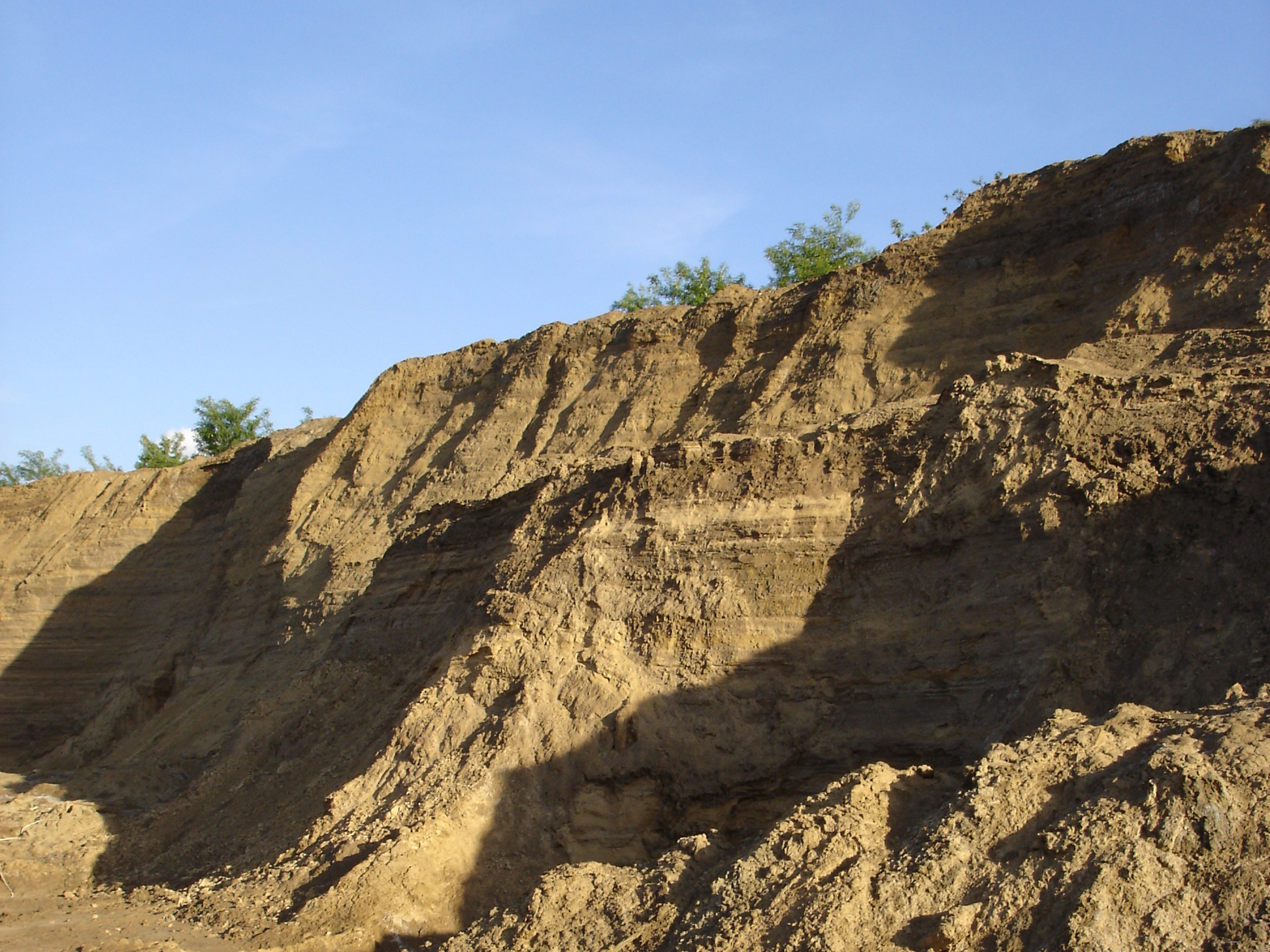 The slag heap (mine dump, mostly dolomite) of former zinc and lead ore mine Marchlewski (ger. Deutsch-Bleischarleygrube, since 1961 part of ZGH Orzeł Biały) in Bytom, Poland, 2017.